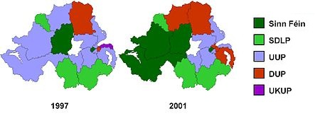 A map showing the 2001 United Kingdom general election results in Northern Ireland compared with the 1997 United Kingdom general election results in Northern Ireland.